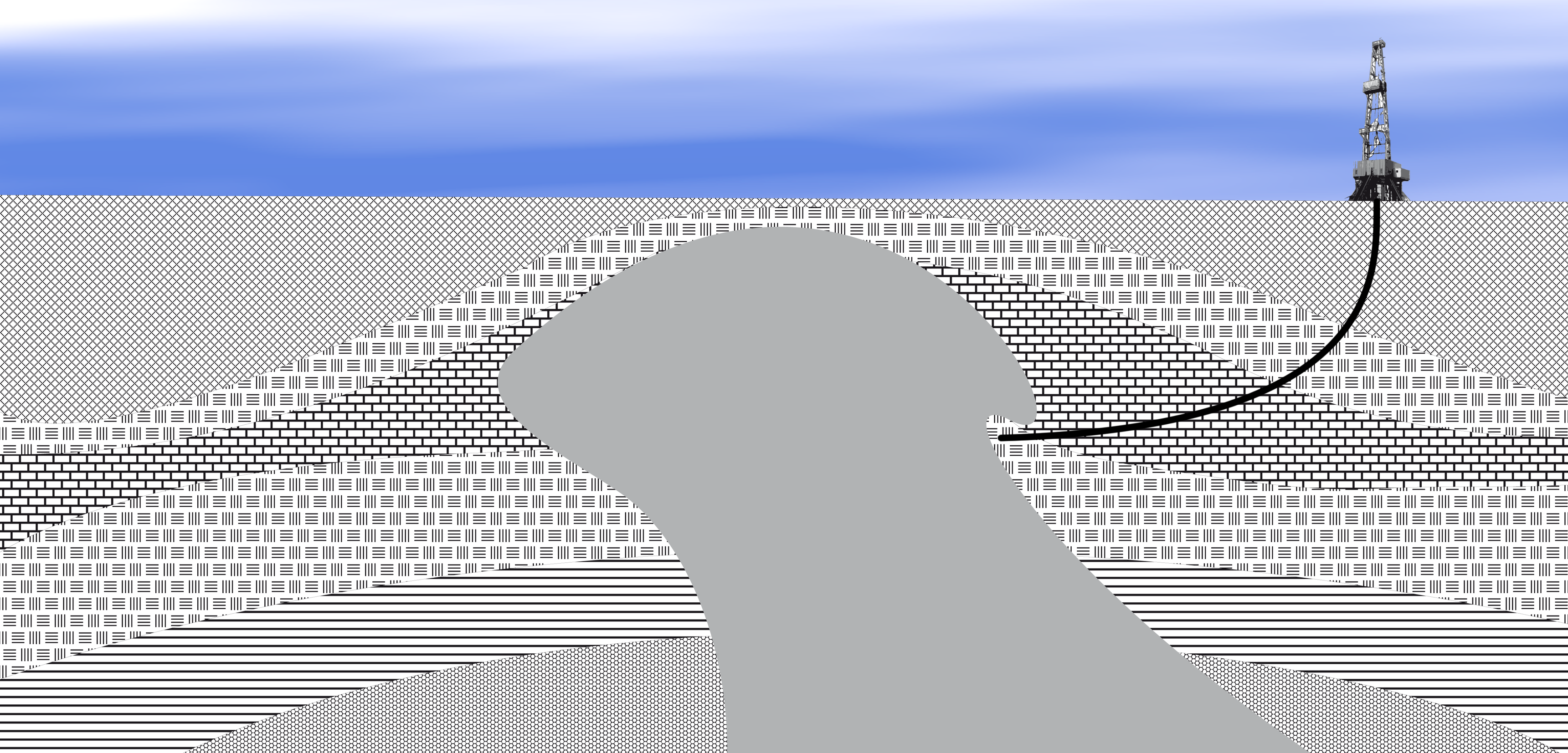 Drilling of petroleum reservoir under salt dome - diagram.